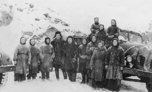 Deported from the Crimea — former inhabitants of the villages of Otuzy and Shelen. Krasnovyshersk, Molotov region, 1948